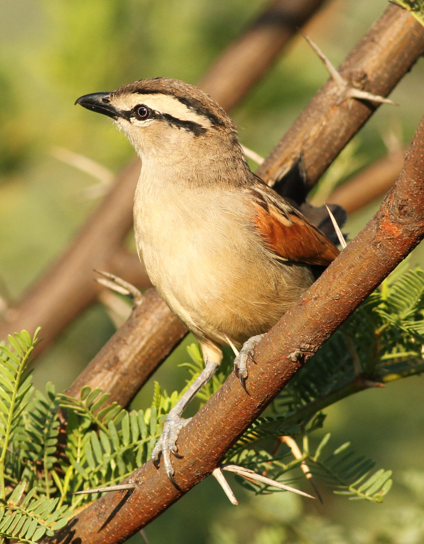 Brown-crowned Tchagra, Tchagra australis at Pilanesberg National Park, Northwest Province, South Africa